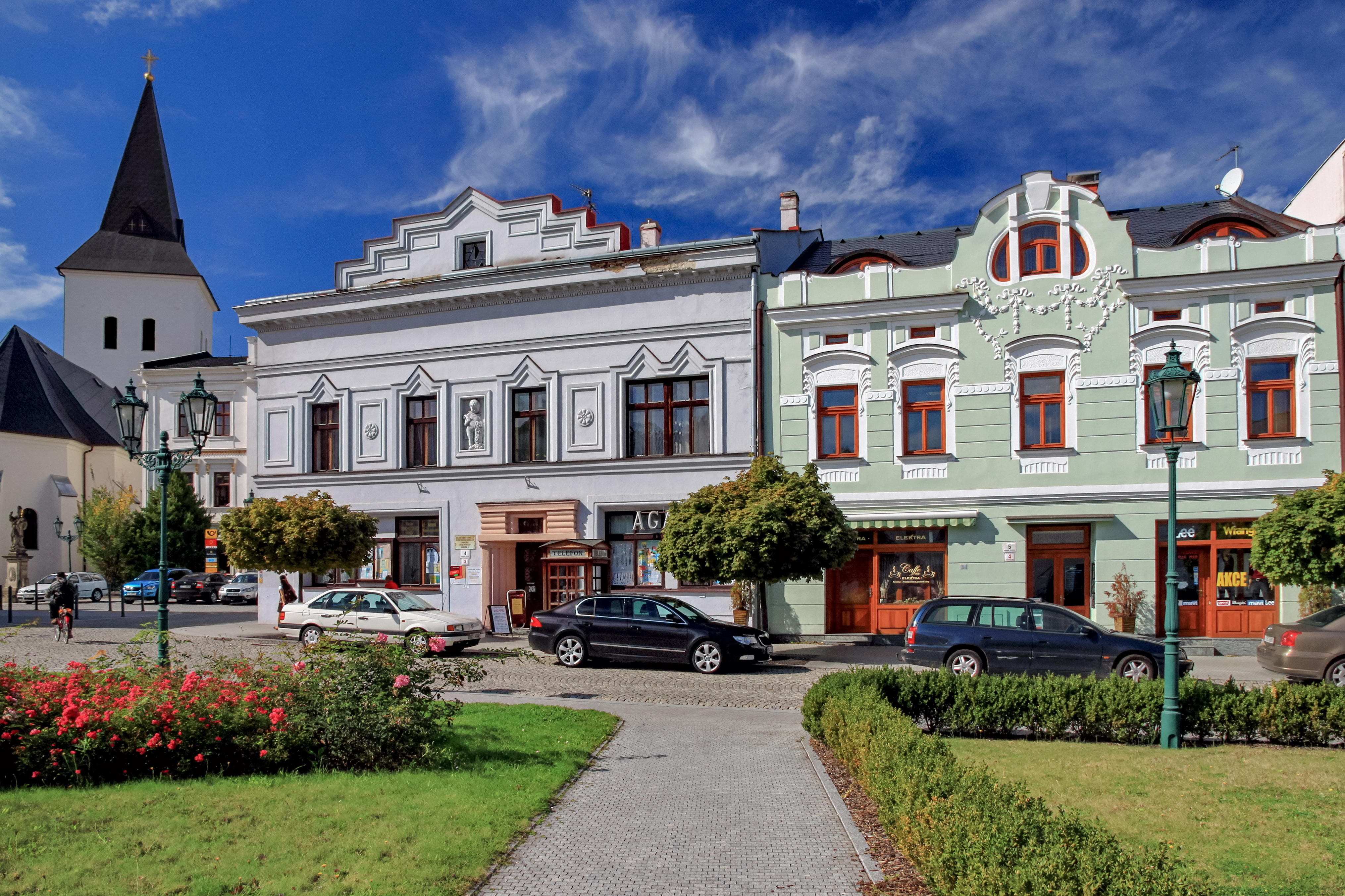 Tenement houses by the square with President Masaryk statue, Fryštát. Karviná, Moravian-Silesian Region, Czech Republic.